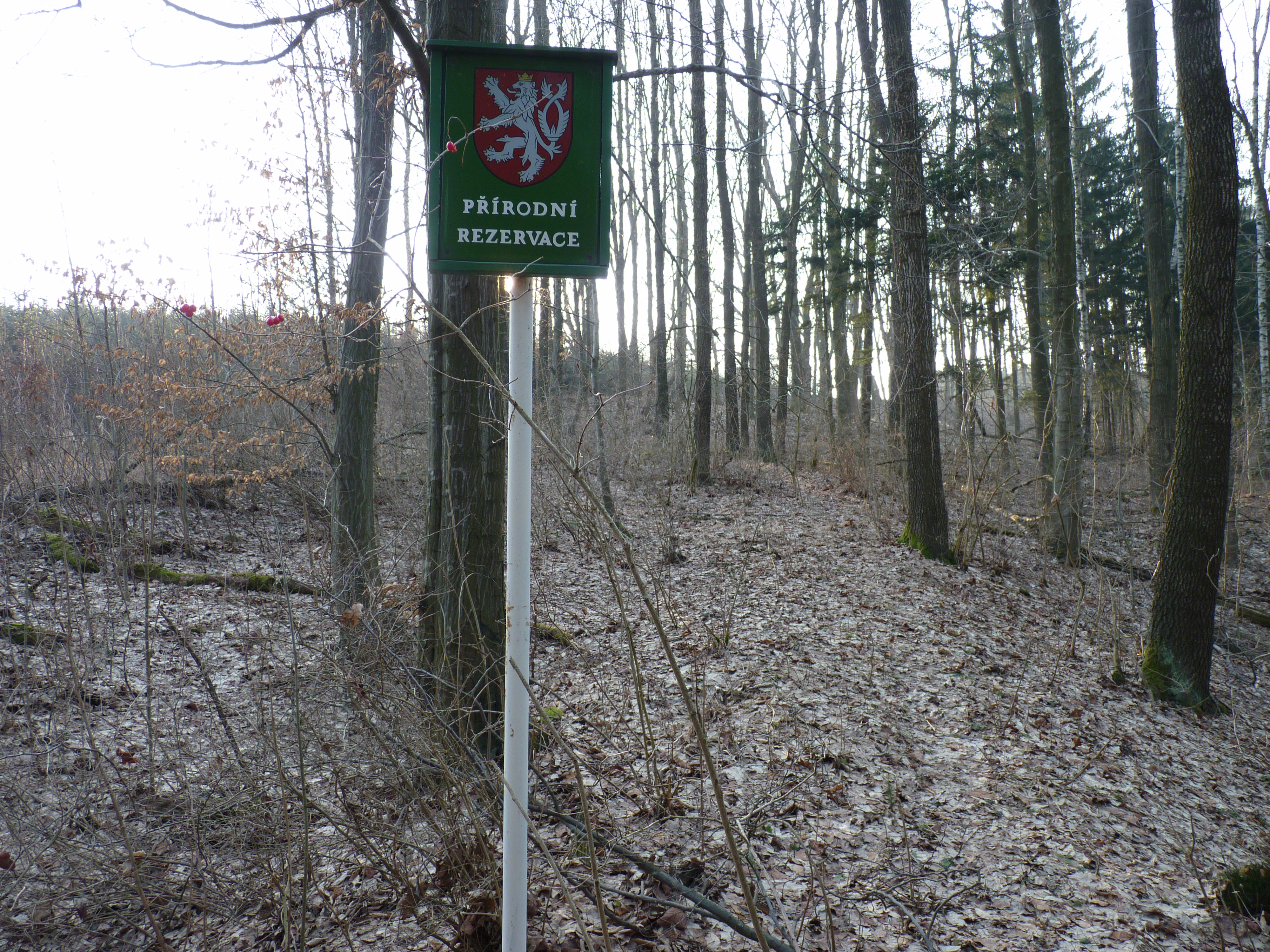 Nature reserve Ve slatinské stráni